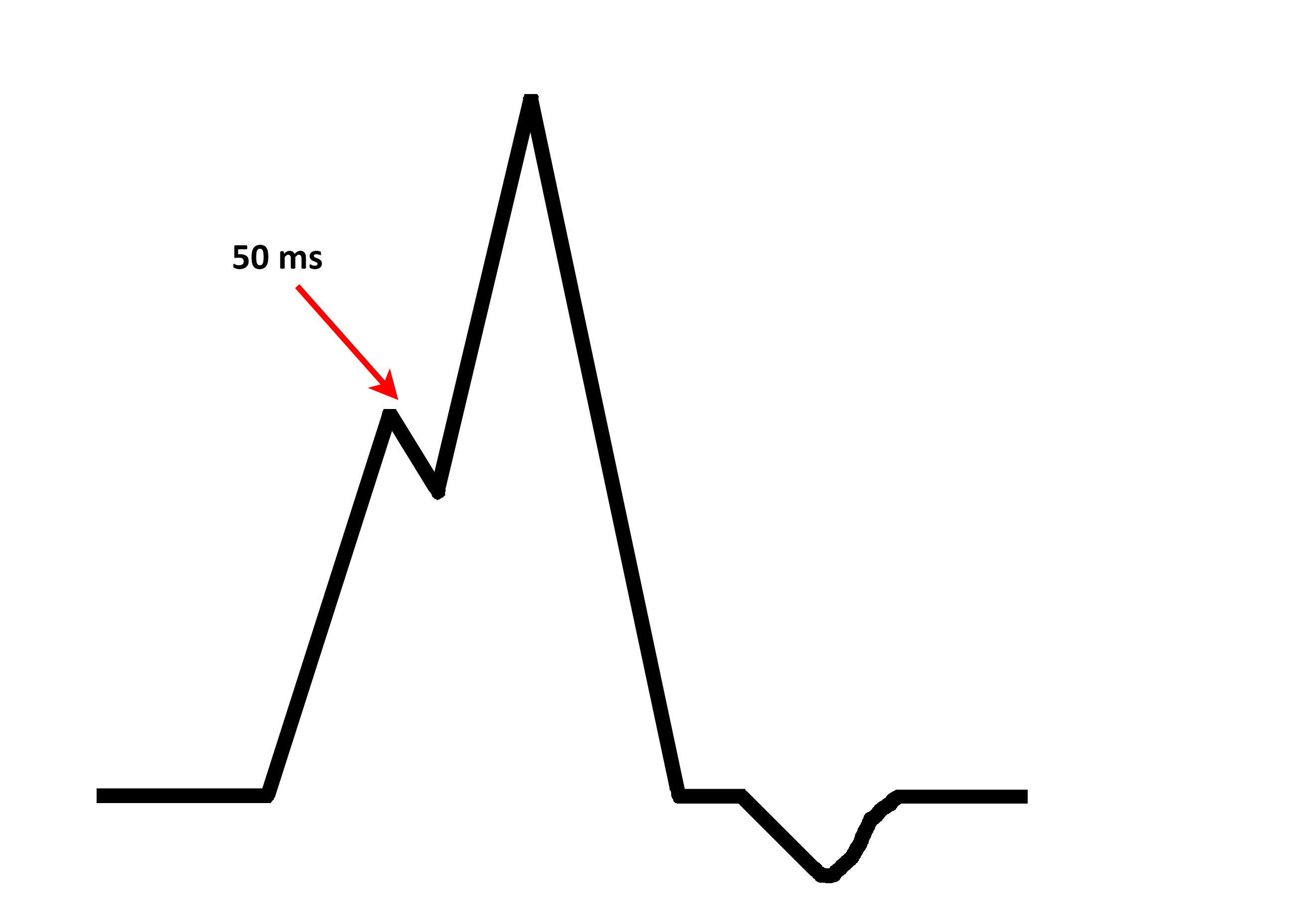 Left bundle branch block with Chapman's sign (sign of anterior myocardial infarction in left bundle branch block)